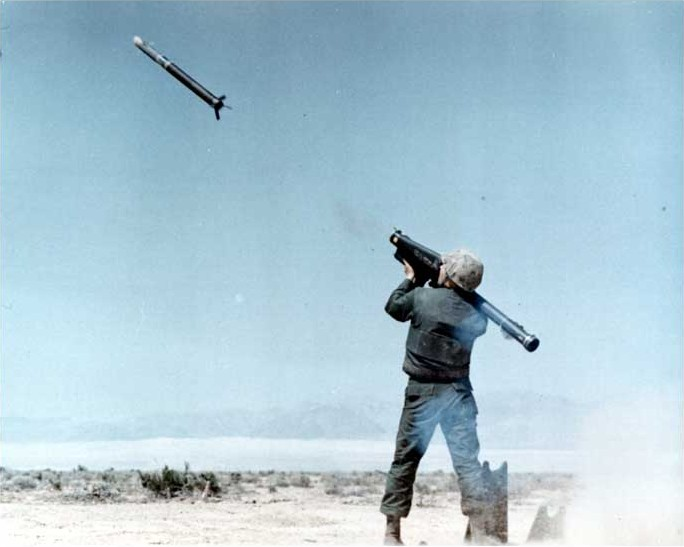 Redeye Surface to Air Missile Launch